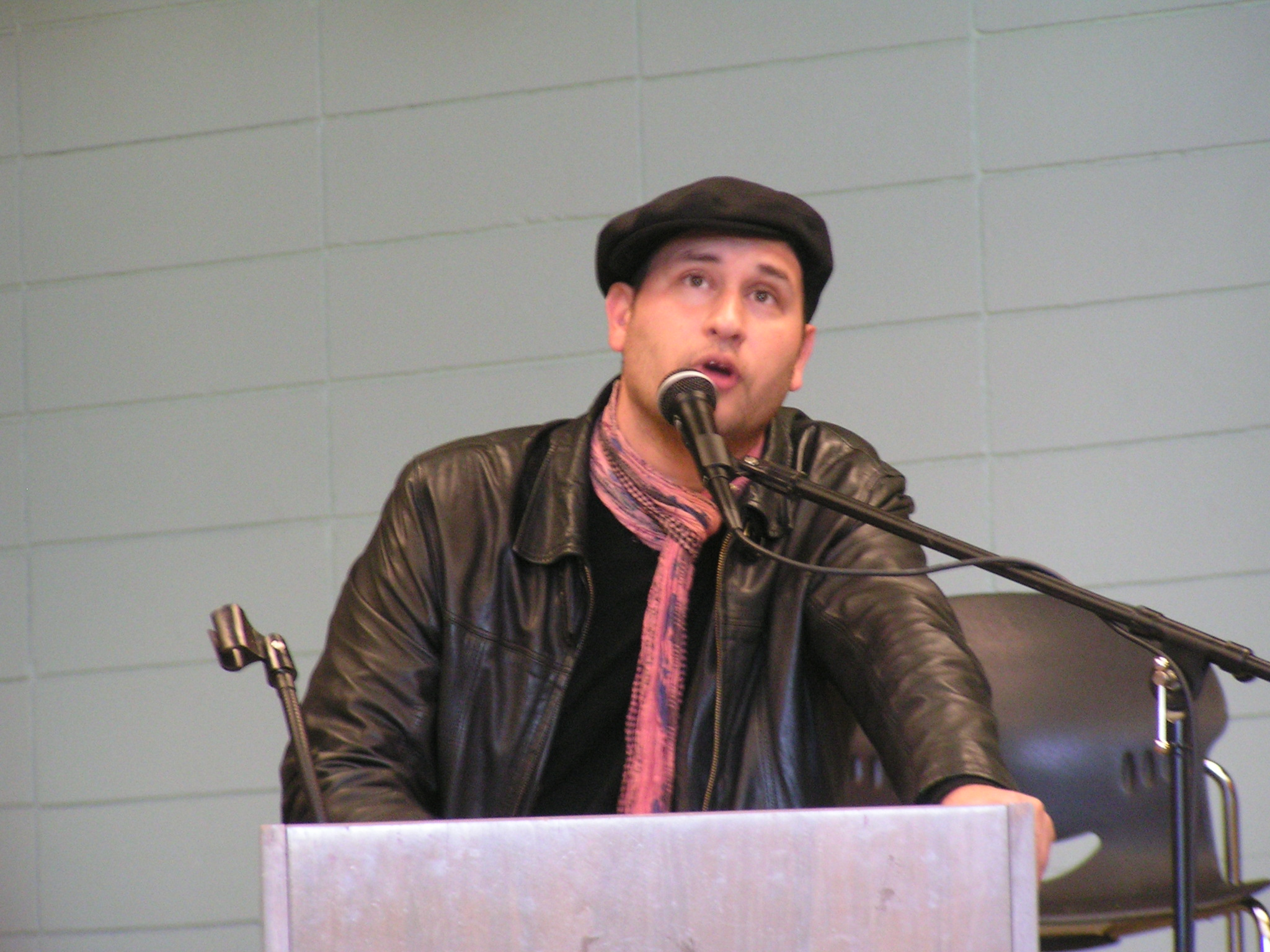 Andrej Grubacic lecturing at the 2010 San Francisco Anarchist Bookfair